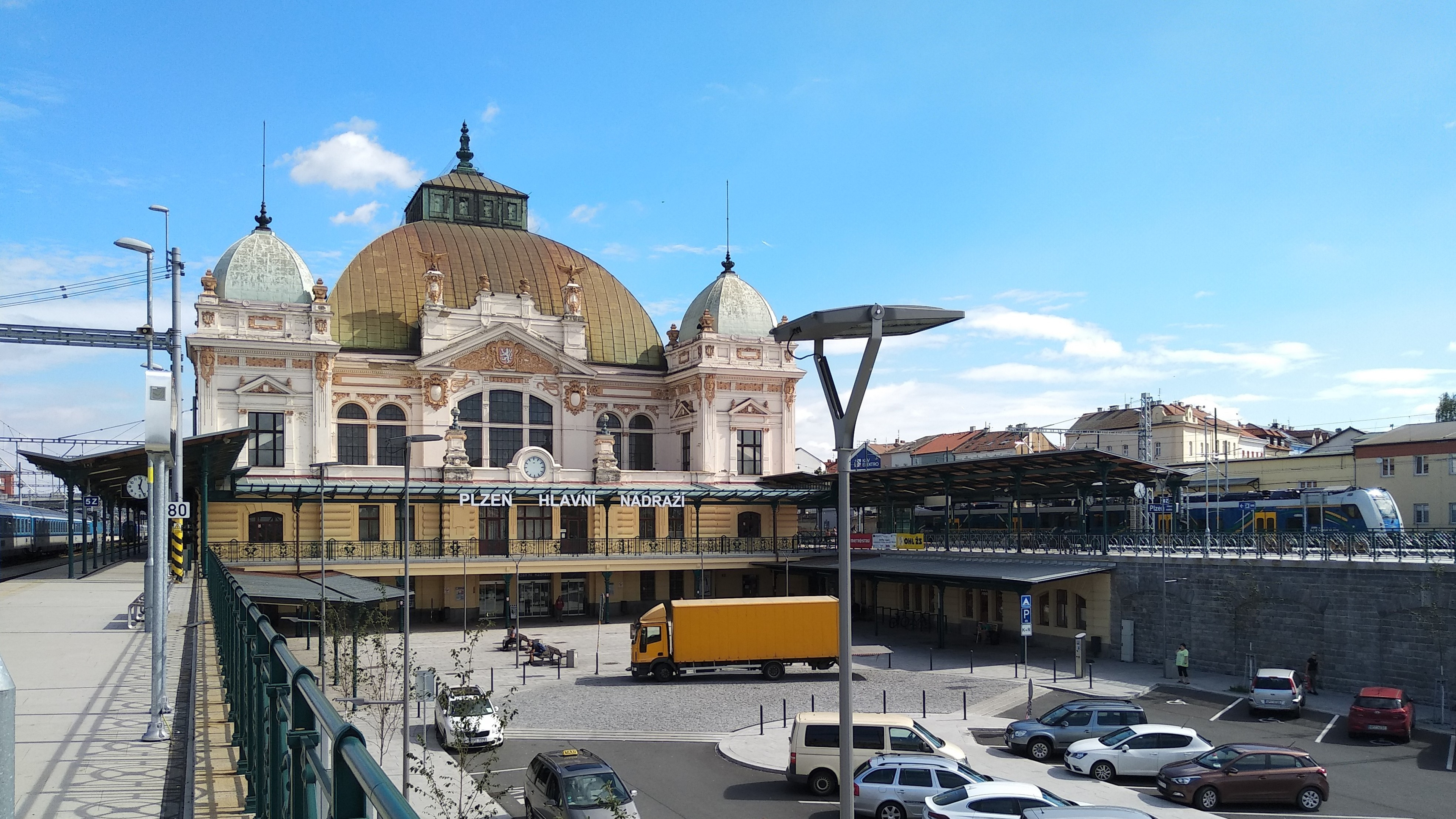 Pilsen main railway station